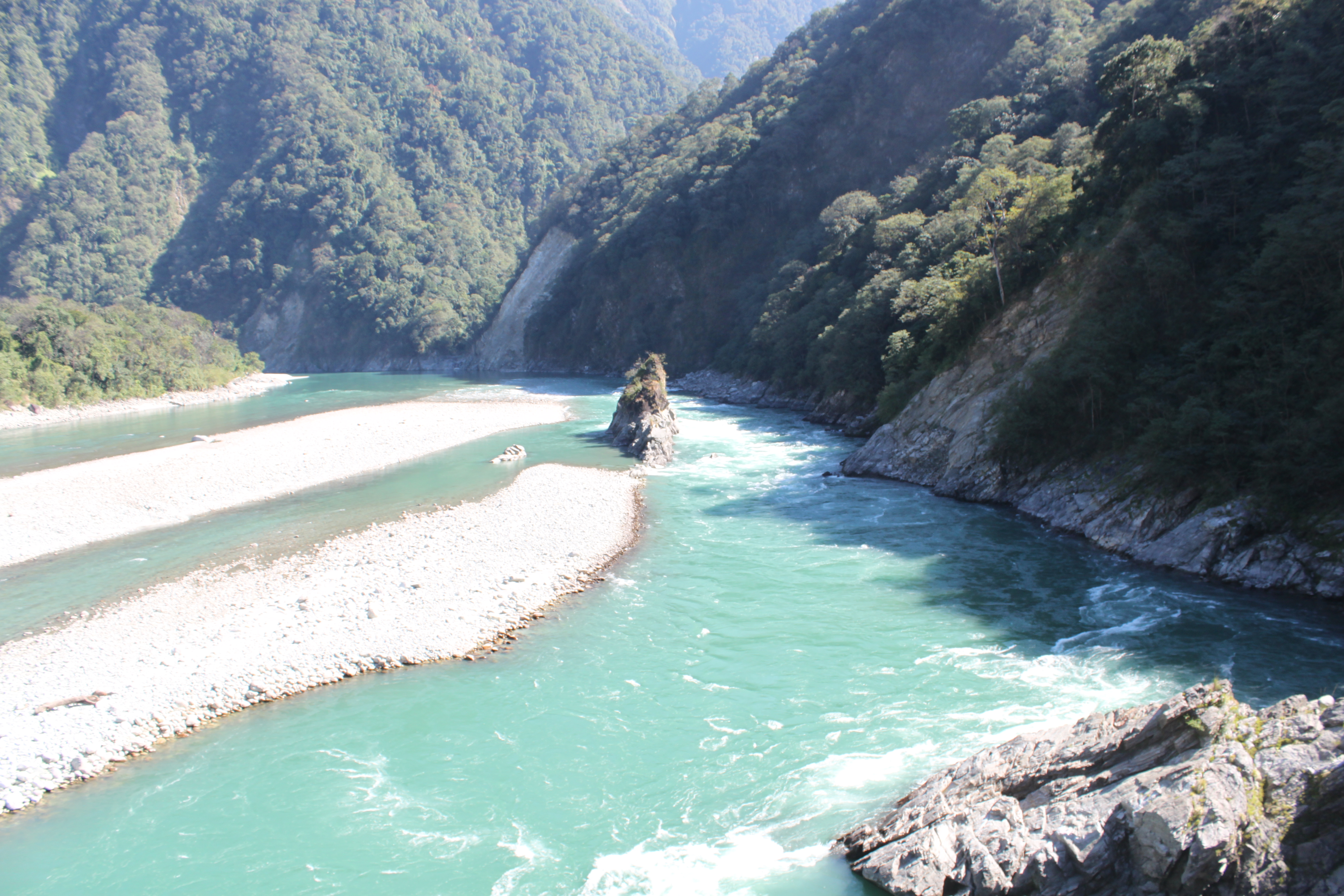 The Lohit river, Arunachal Pradesh. It is a tributary of the Bramhaputra river.